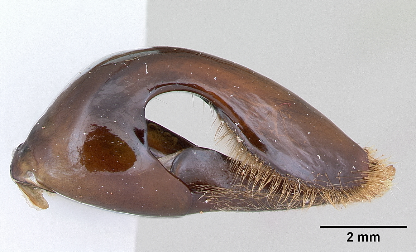 Profile view of ant Dorylus wilverthi specimen casent0172860.